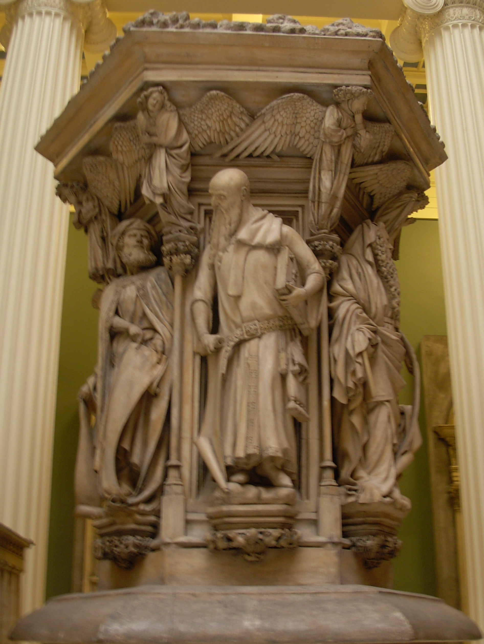 The Well of Moses (1395-1405), Dijon, France, by Claus Sluter (Jeremiah shown)